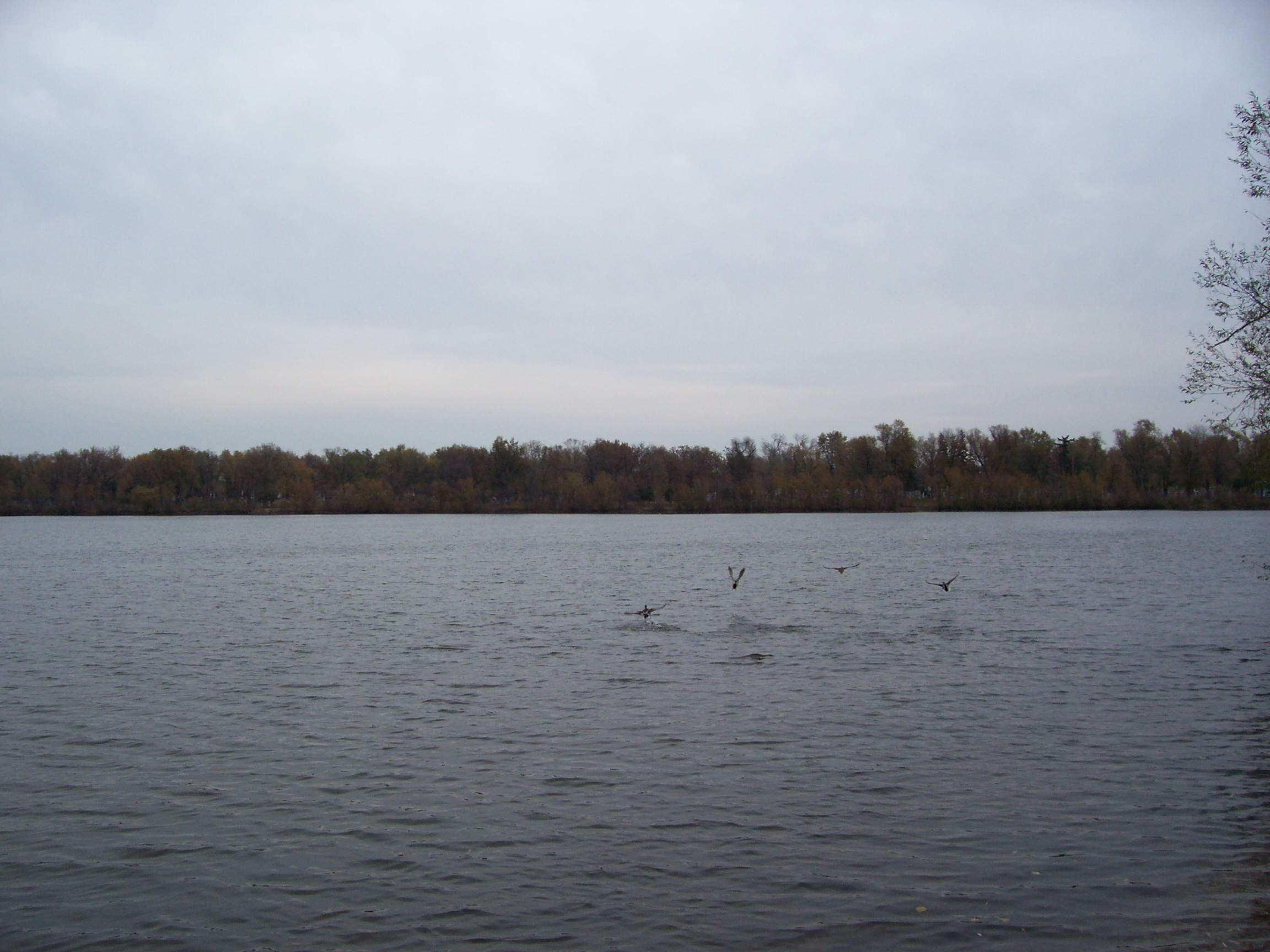 Lake Butte des Mortes in Oshkosh, Wisconsin, USA. Taken near a golf course.